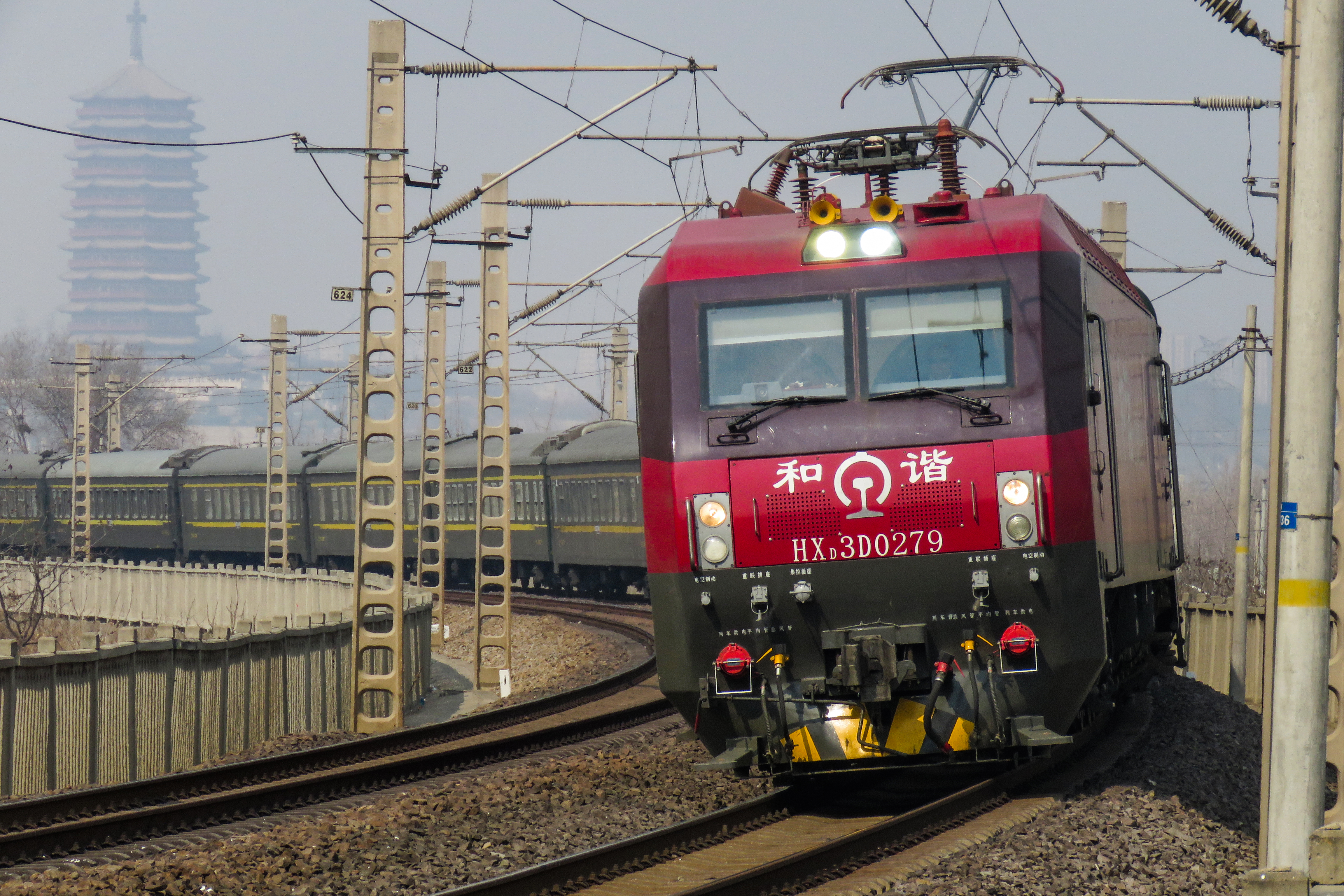 T175 to Xining, cheaper than Z151.